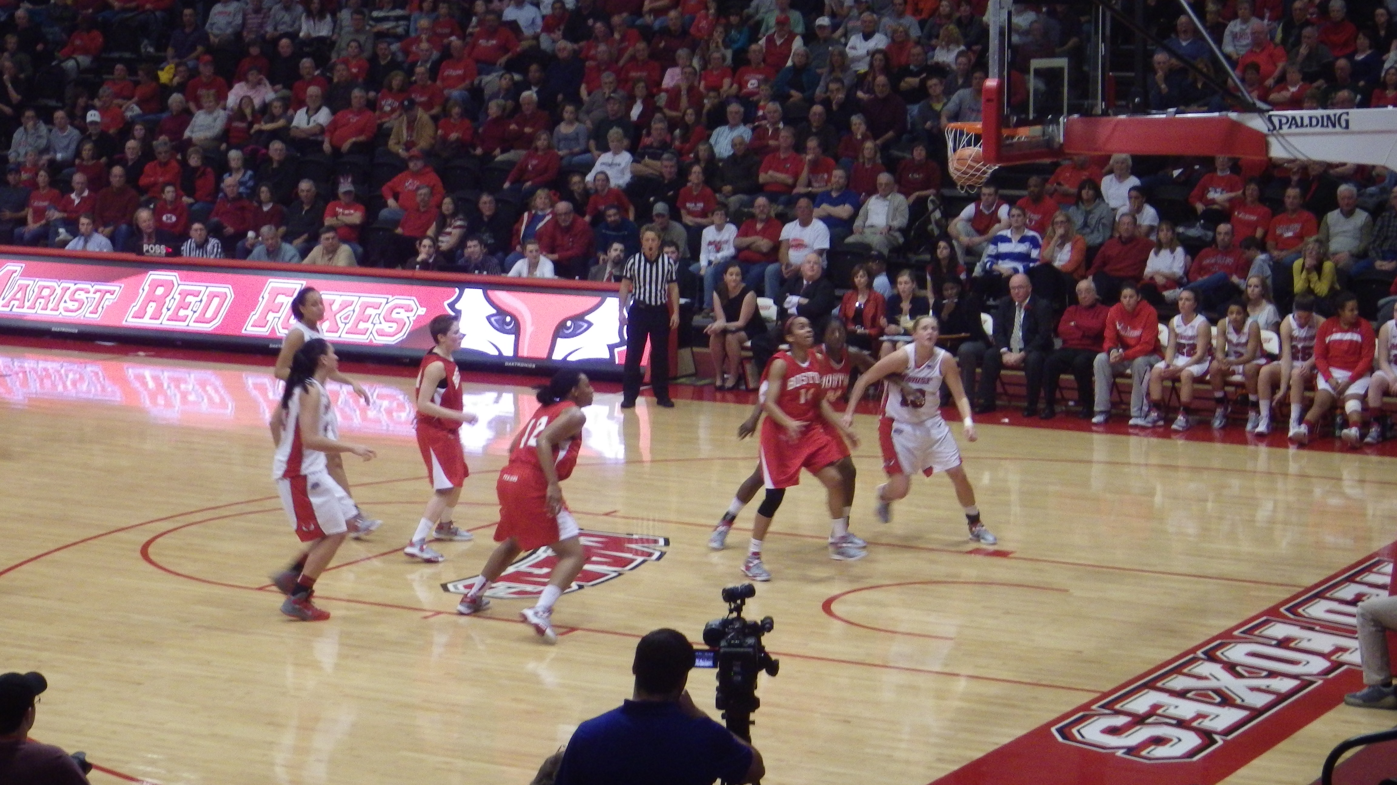 Marist College women's basketball vs. Boston University